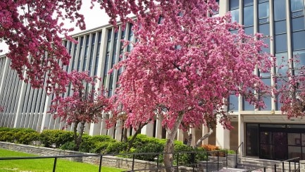 A view from the south of the Gerald Larkin Building at Trinity College, Toronto